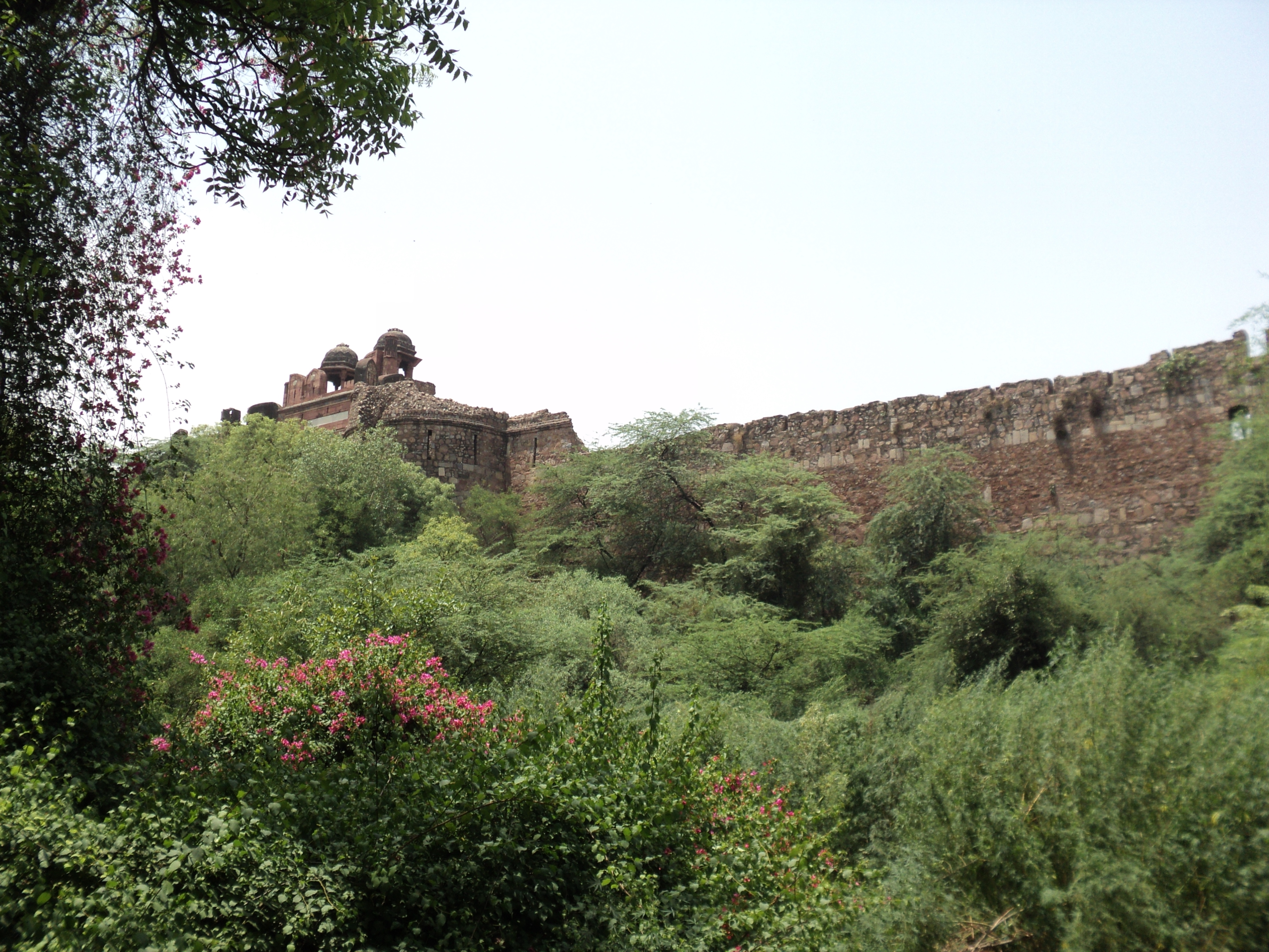 Old Fort , Delhi as seen from National Zoo